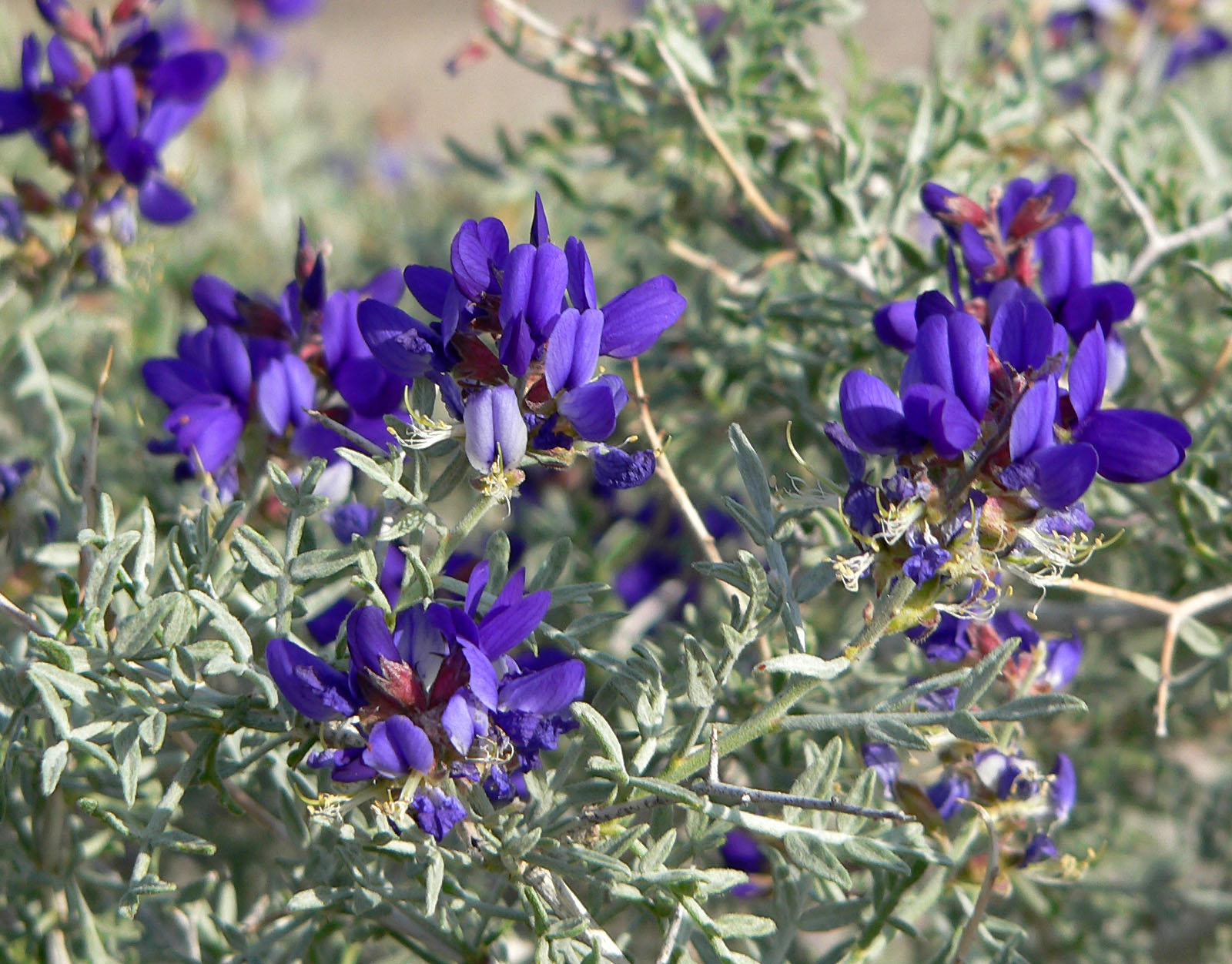 Psorothamnus fremontii at Starvation Flat near junction of Great Basin Highway and State Road 168 (Coyote Springs), southern Nevada